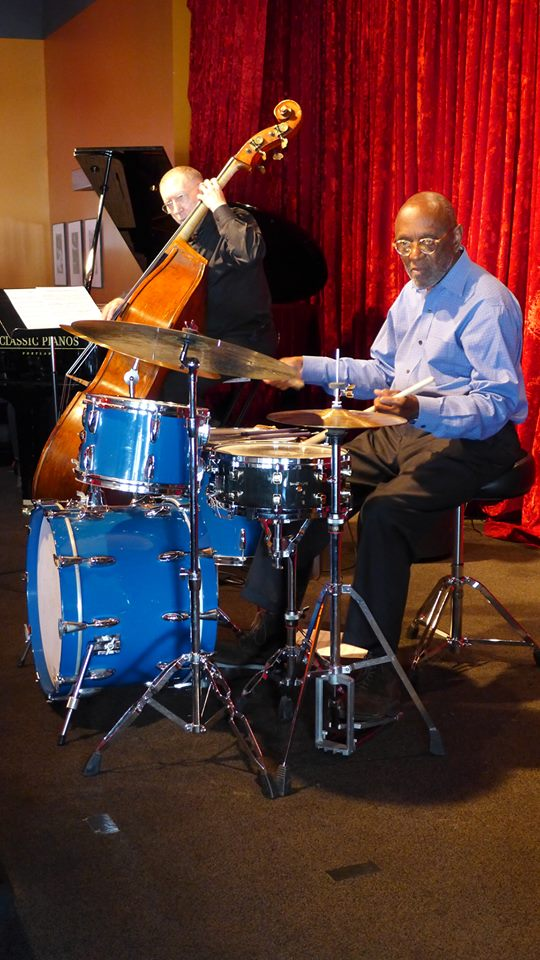 Tootie Heath